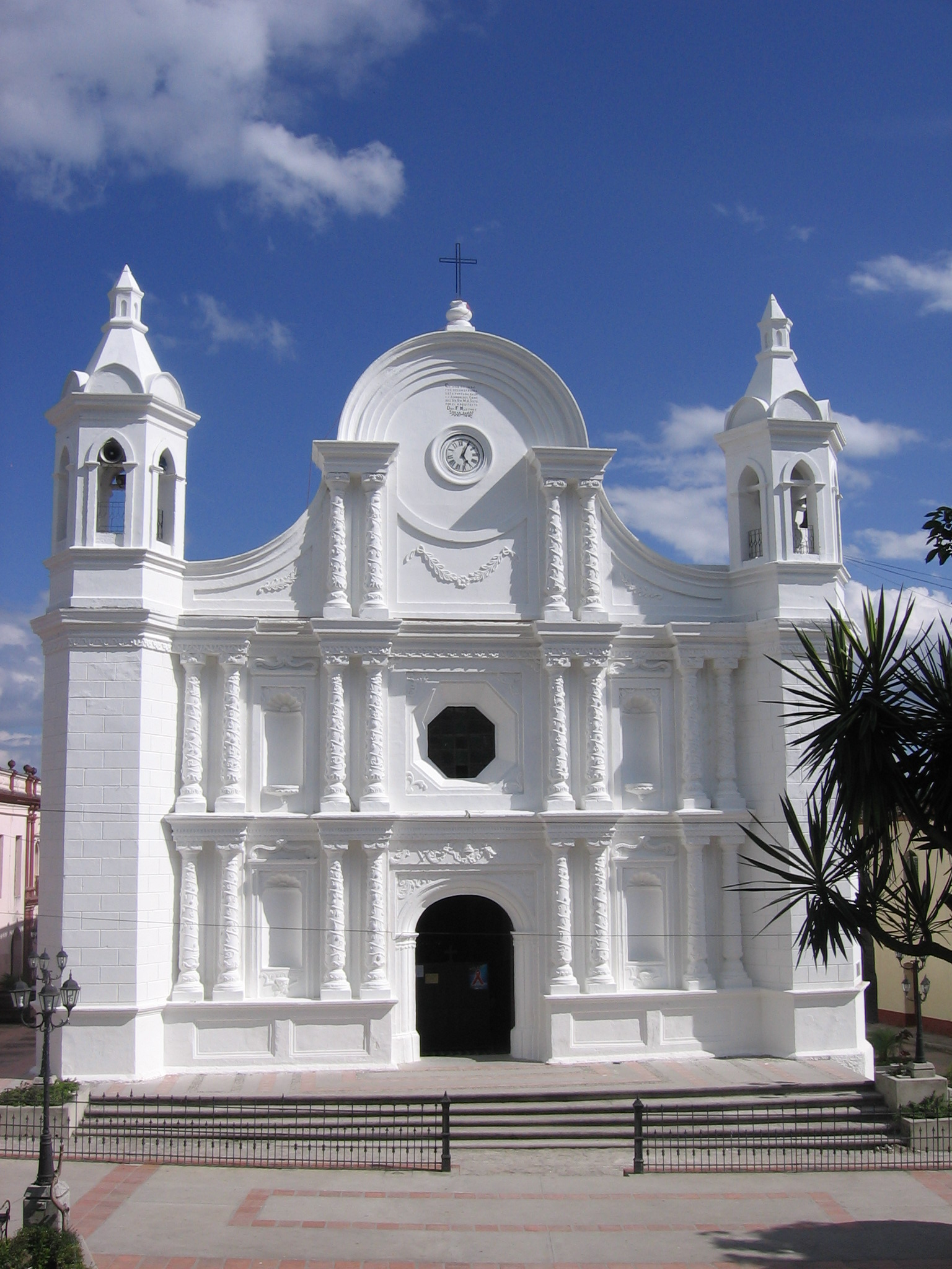 Catholic Church in Santa Rosa de Copan